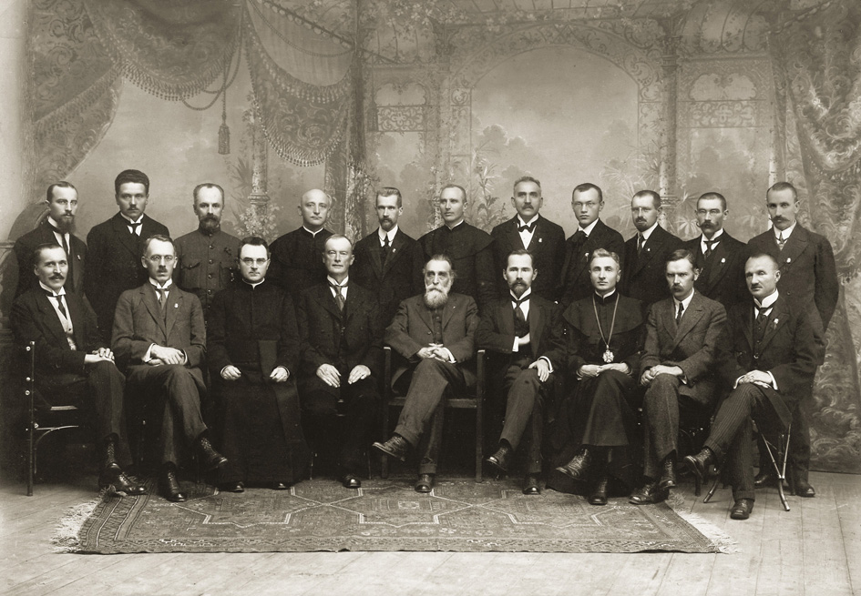 Members of the Council of Lithuania in November 1917. From left to right: Standing: Kazimieras Bizauskas, Jonas Vailokaitis, Donatas Malinauskas, kun. Vladas Mironas, Mykolas Biržiška, kun. Alfonsas Petrulis, Saliamonas Banaitis, Petras Klimas, Aleksandras Stulginskis, Jokūbas Šernas, and Pranas Dovydaitis. Sitting: Jonas Vileišis, Dr. Jurgis Šaulys, kun. Justinas Staugaitis, Stanislovas Narutavičius, Dr. Jonas Basanavičius, Antanas Smetona, kan. Kazimieras Steponas Šaulys, Steponas Kairys, and Jonas Smilgevičius.